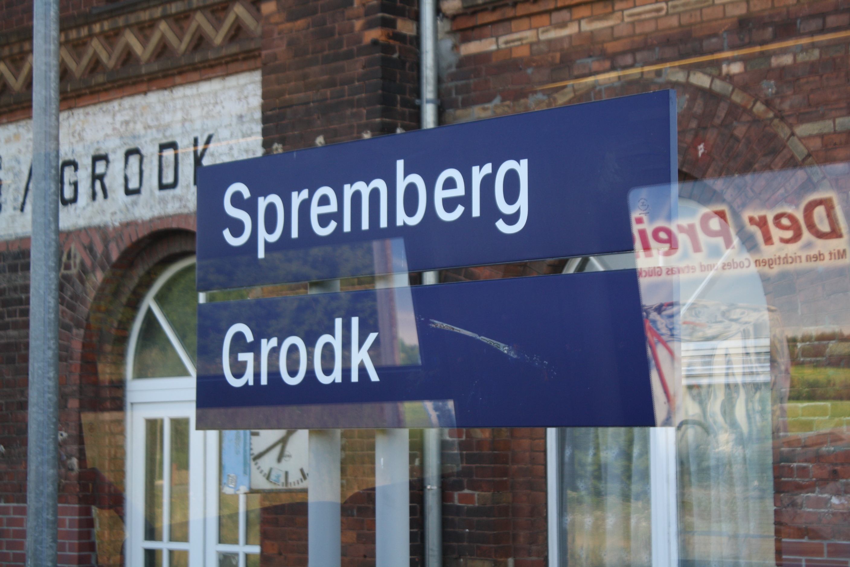 Bilingual sign at the railway station Grodk (in Sorbian)/Spremberg (in German) in Lower Lusatia, province Brandenburg, Germany.